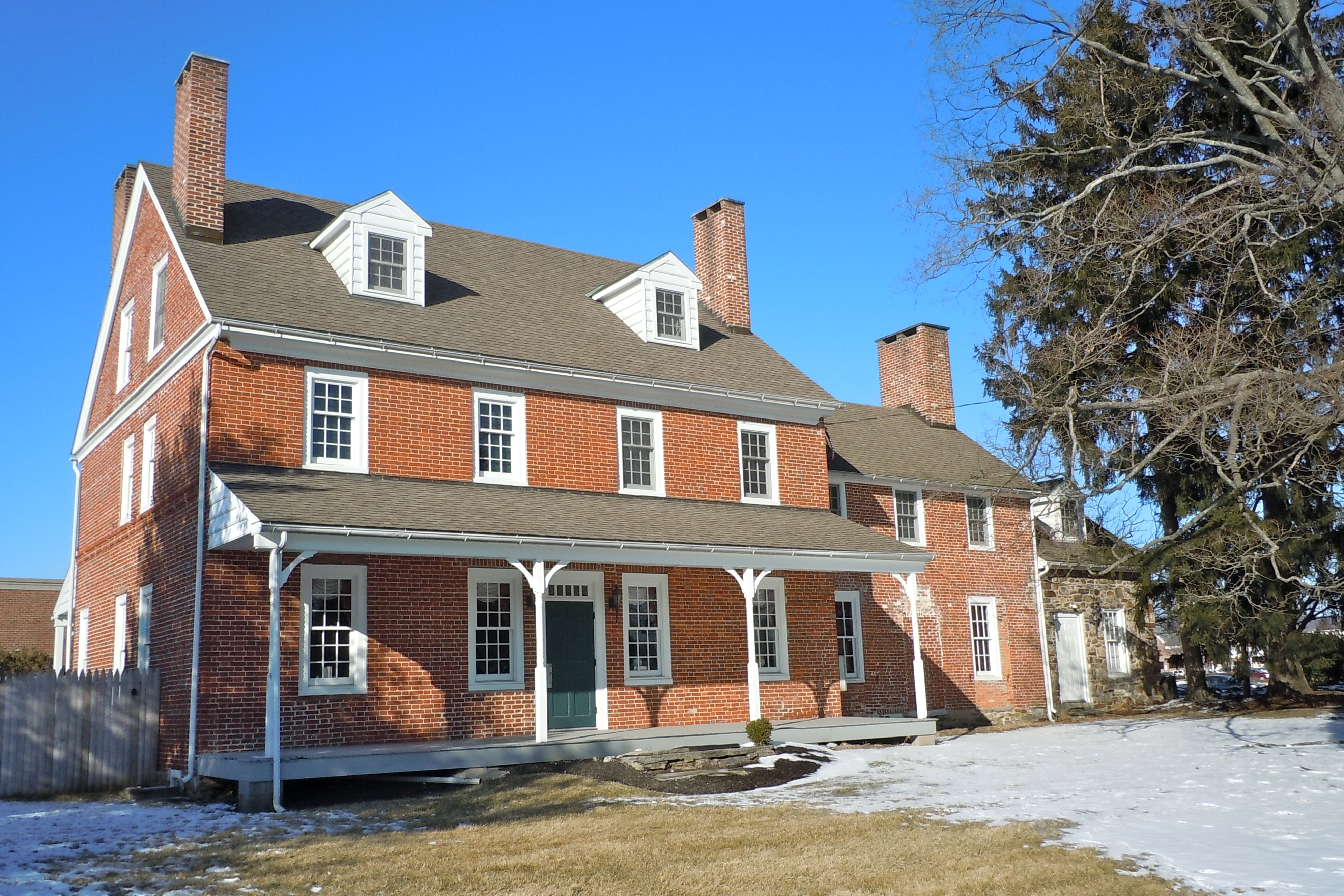 Whitford Hall on the NRHP since September 6, 1984. At 145 West Lincoln Highway, West Whiteland Township, Chester County, near Exton, Pennsylvania